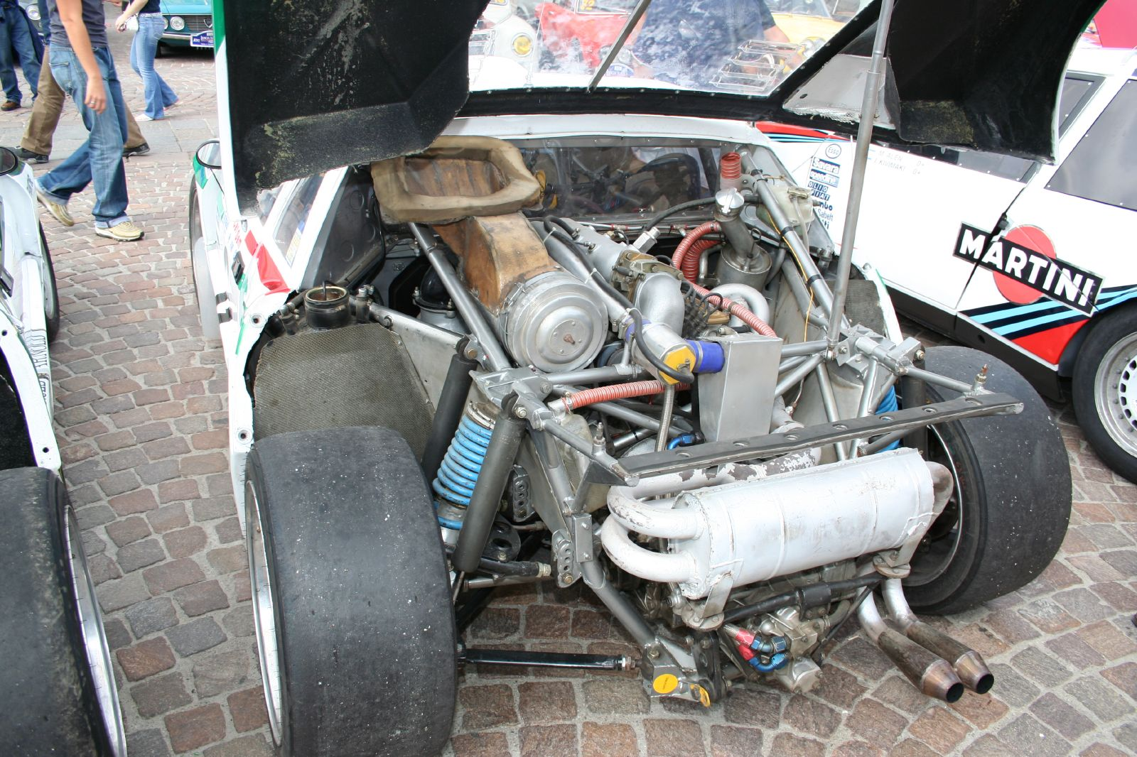 Lancia Rally 037 at the Lancia centenary celebrations in Turin in 2006.